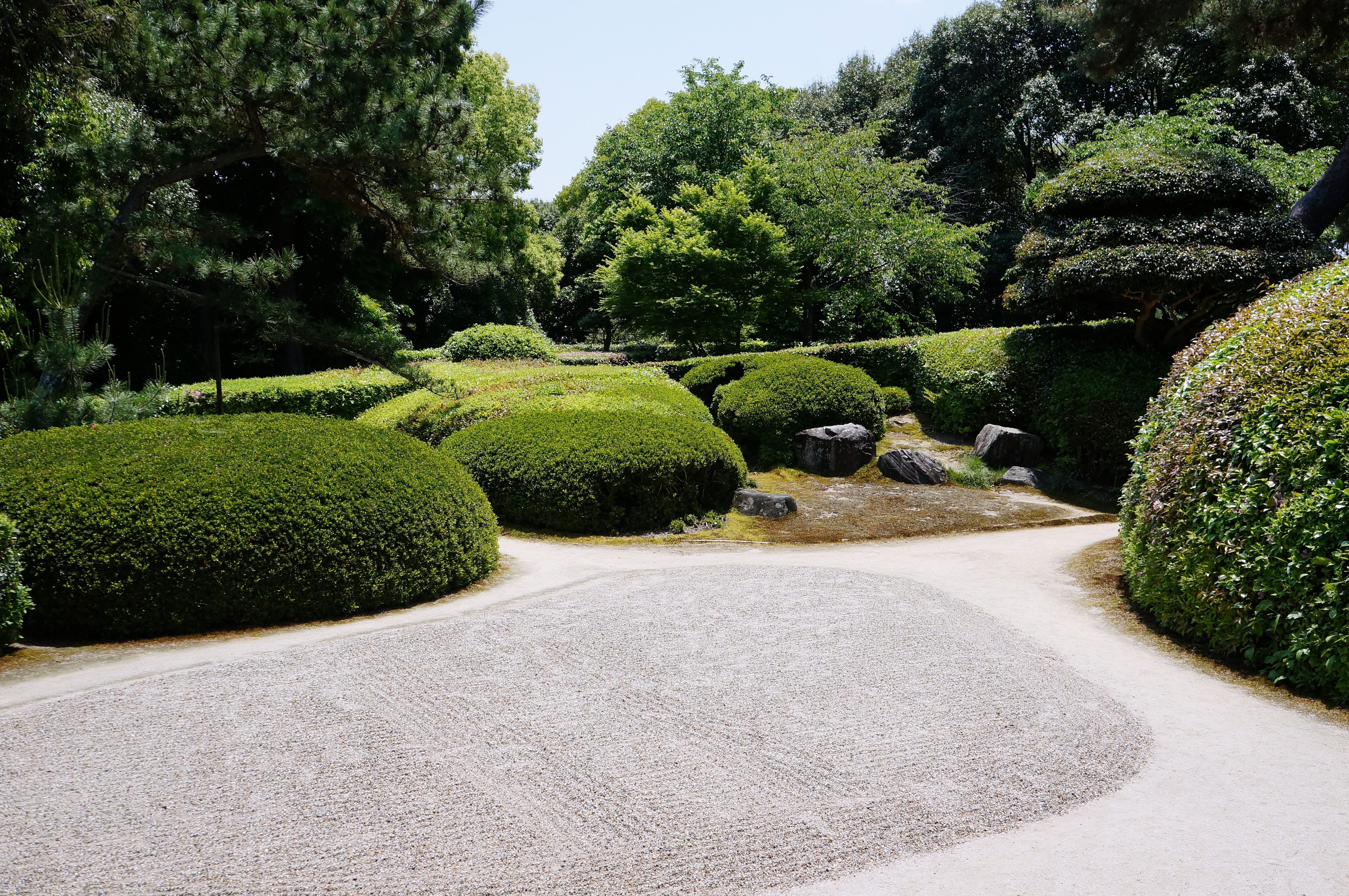 Jikō-in in Yamatokoriyama, Nara prefecture, Japan.